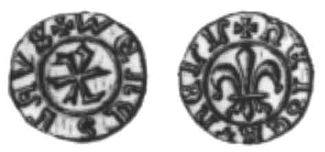 Silesia, the Duchy of Nysa, king Wenceslaus IV (1378-1419), halier of Nysa, 1381. Aw: A six-pointed cross with hooks, kolovrat and an inscription: "WENUSLAWS". Rew: Lily and inscription: "NEIS CARUISIS".